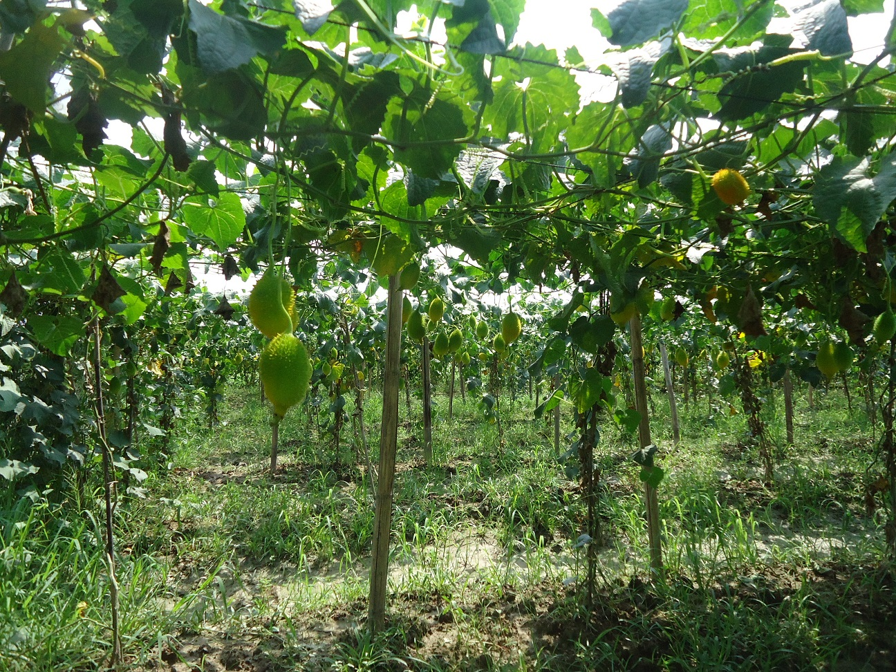 The vegetable farming in Rangunia Upazila of Chittagong disrict